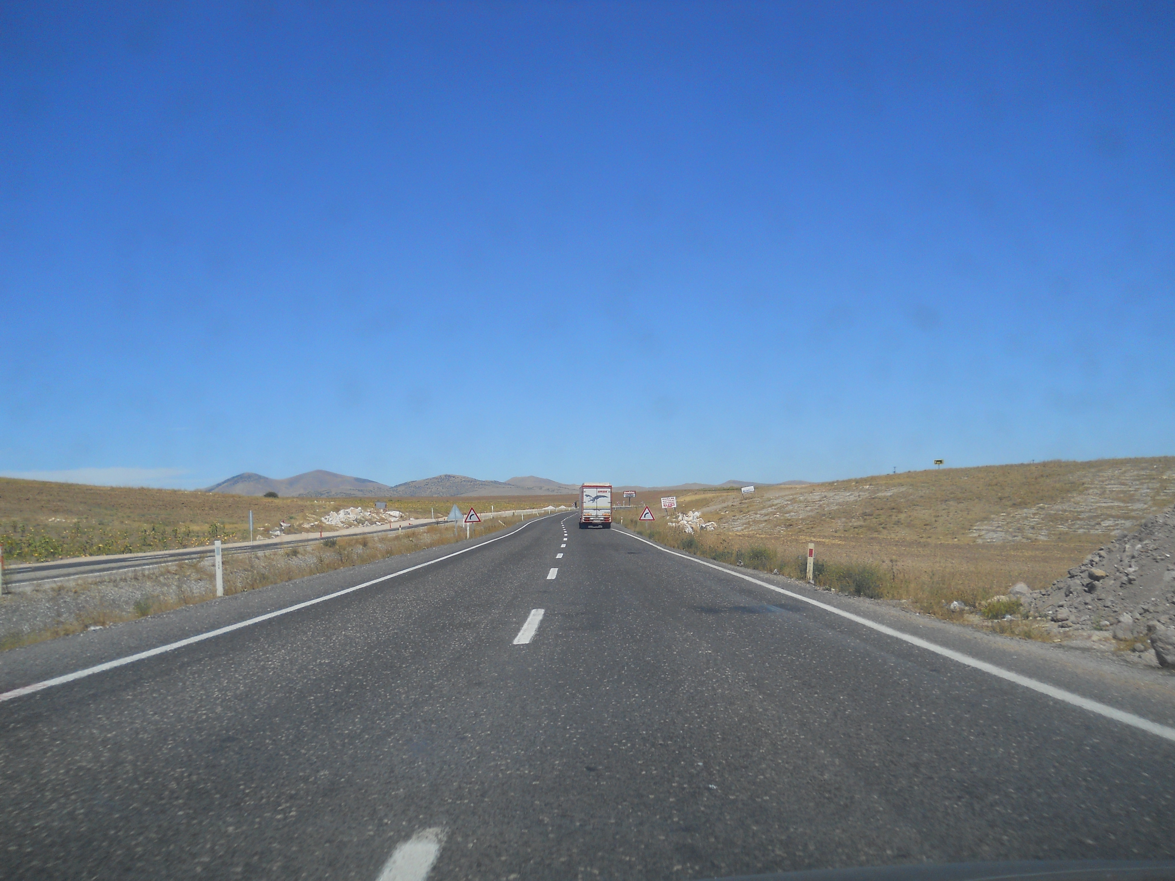 Nevşehir Kayseri state road near Avanos